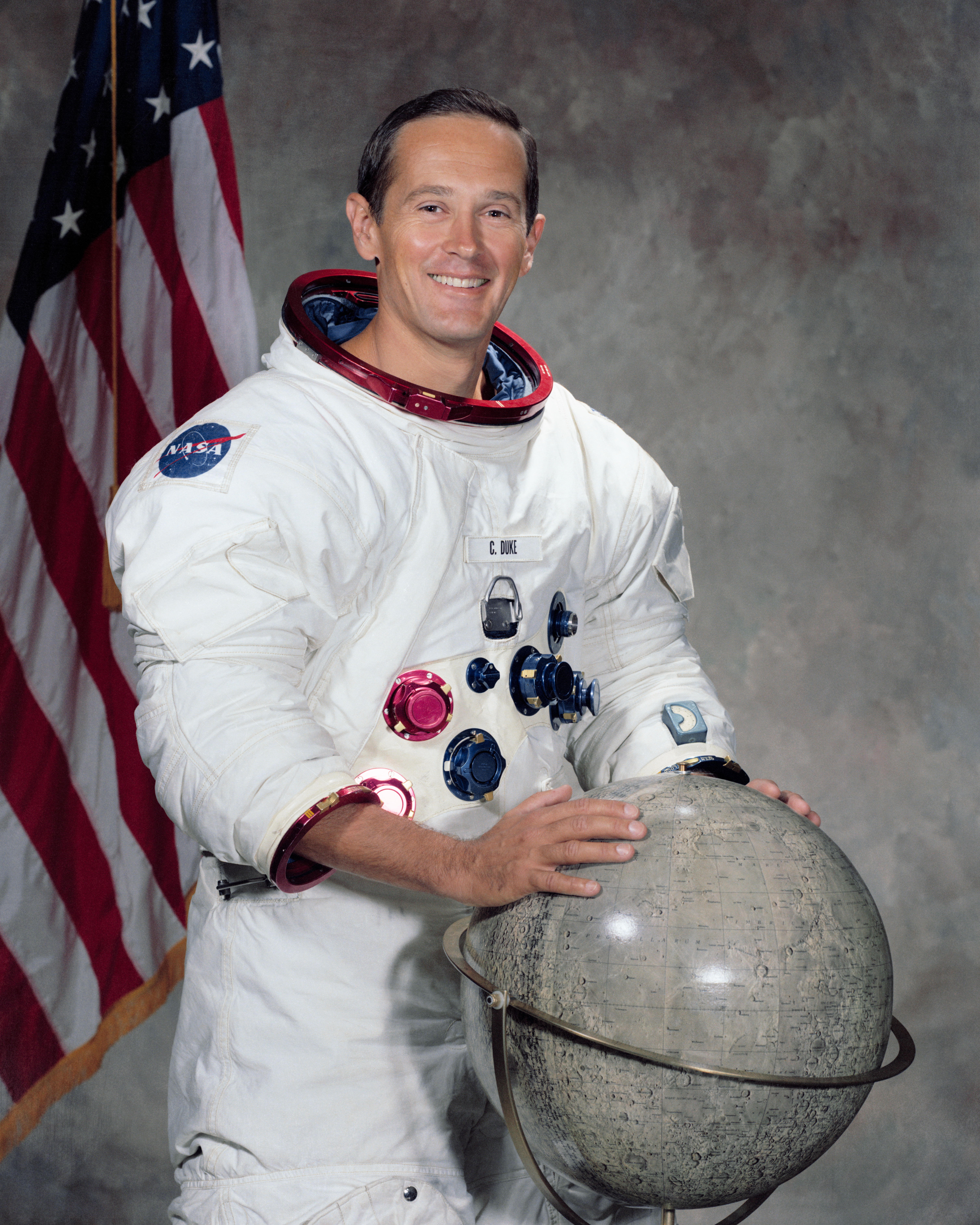 Portrait of Astronaut Charles M. Duke Jr.,in space suit with a lunar globe in front of him and an American flag behind him.